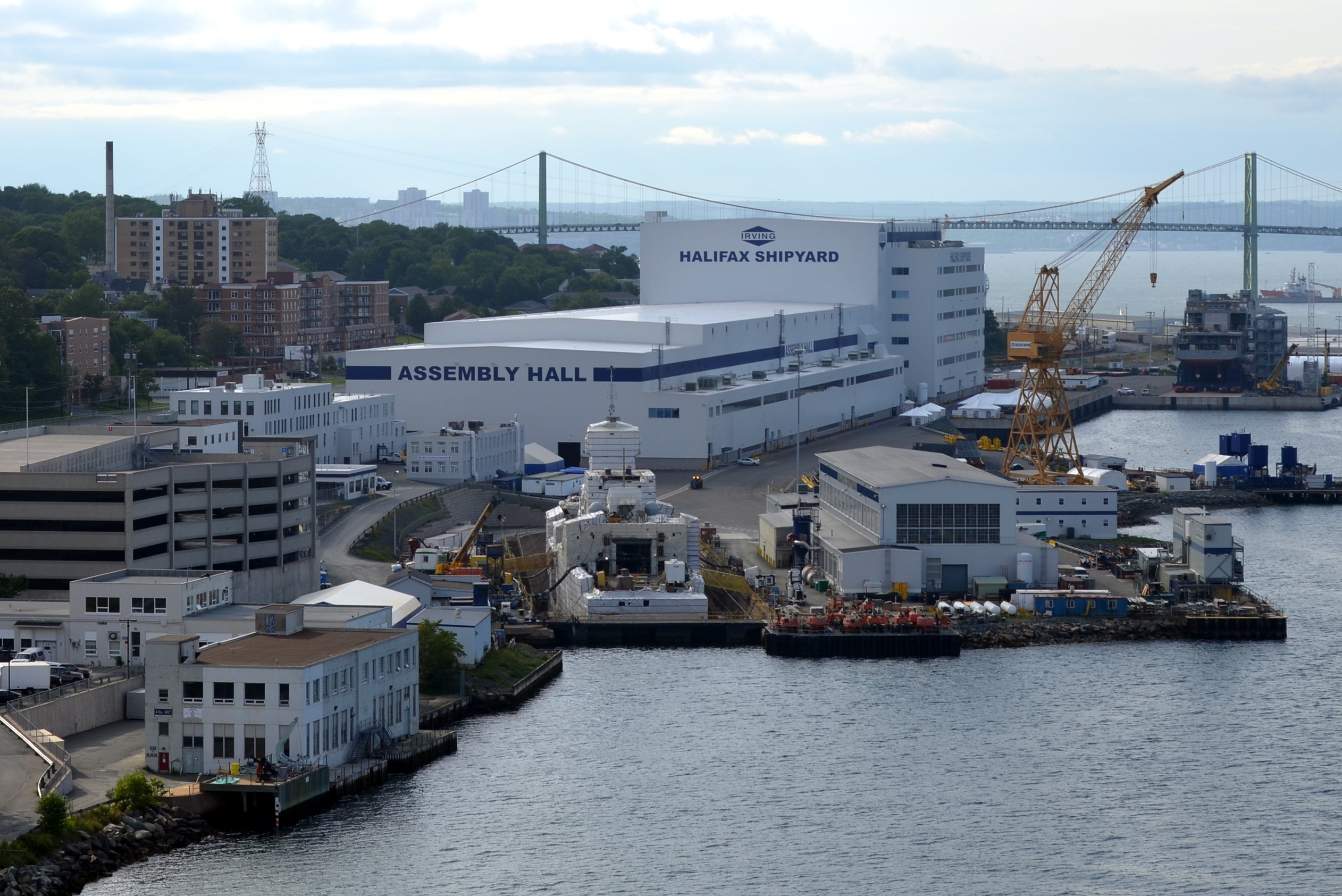 A view of the Halifax Shipyard in July 2017. Viewed from the bike lane of the Macdonald Bridge.